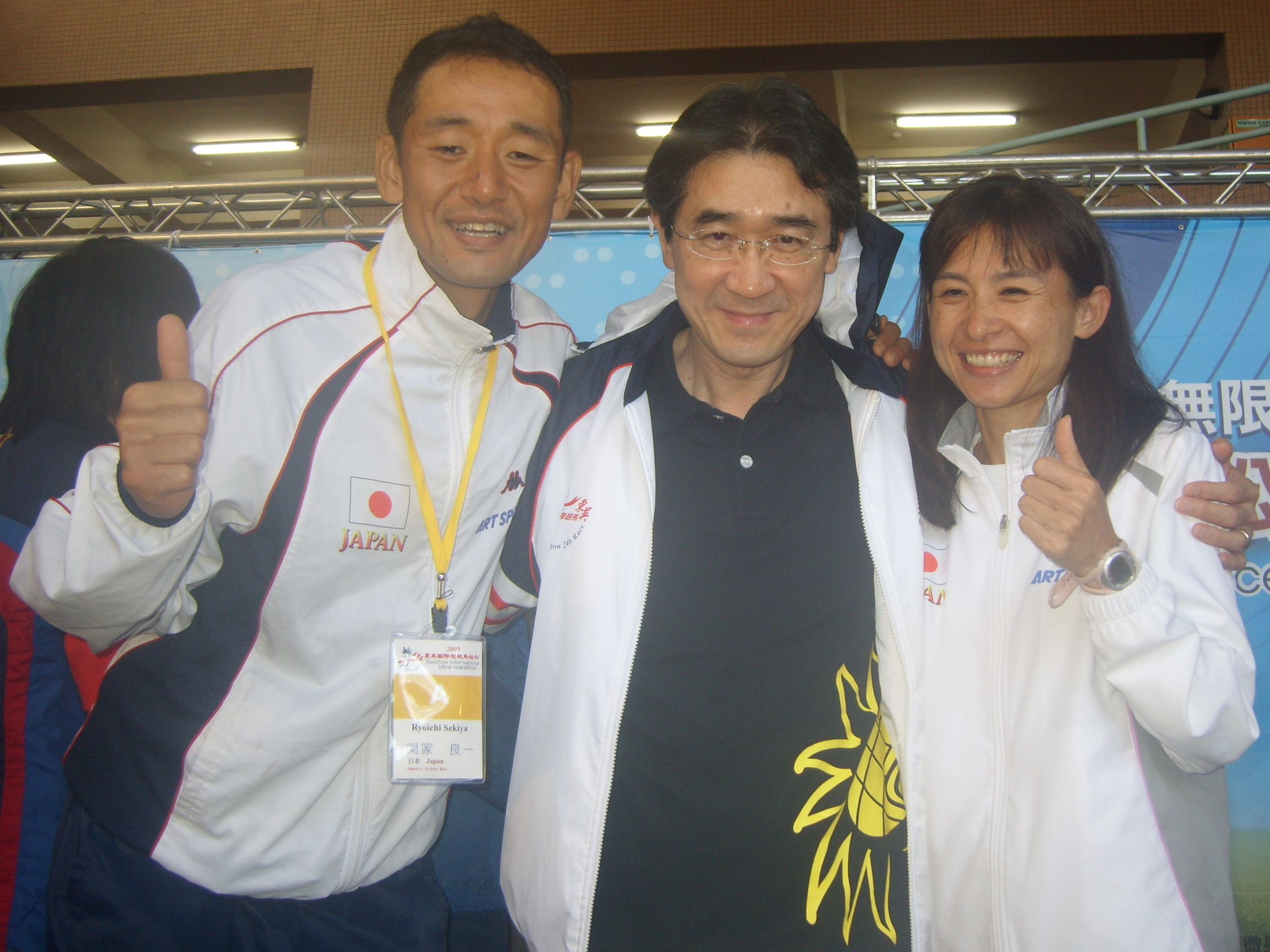 2009 Soochow International 24h Ultra-Marathon: Chen-tai Huang, current principal of Soochow University, and two Champions (Ryoichi Sekiya in the left and Mami Kudo in the right).